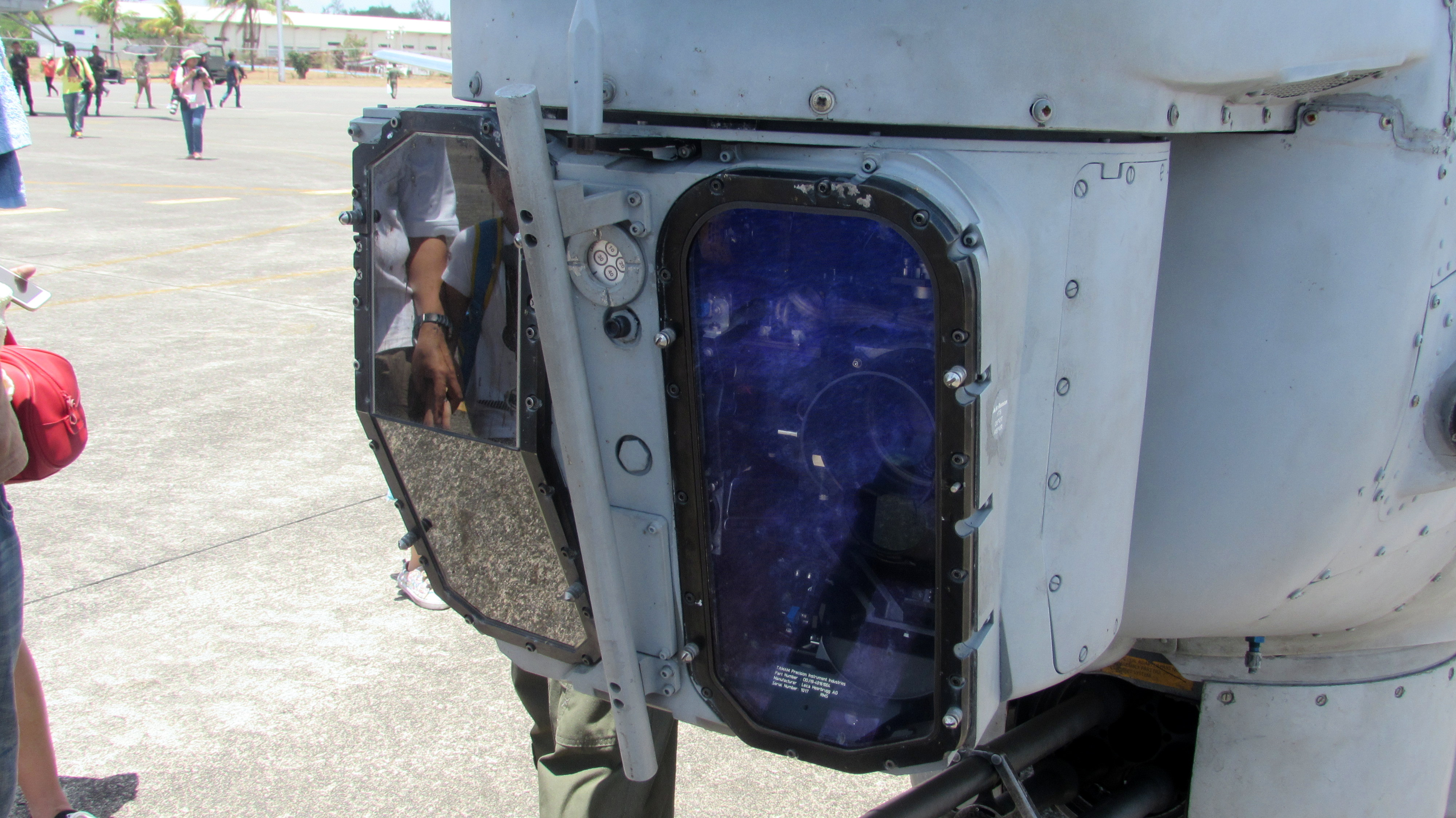 The Electro-Optical (EO) Sensors of an AH-1 Cobra Helicopter of the United States Marine Corps (USMC). Photo taken during the Static Aircraft Display Day of the Balikatan 2016 Exercise.